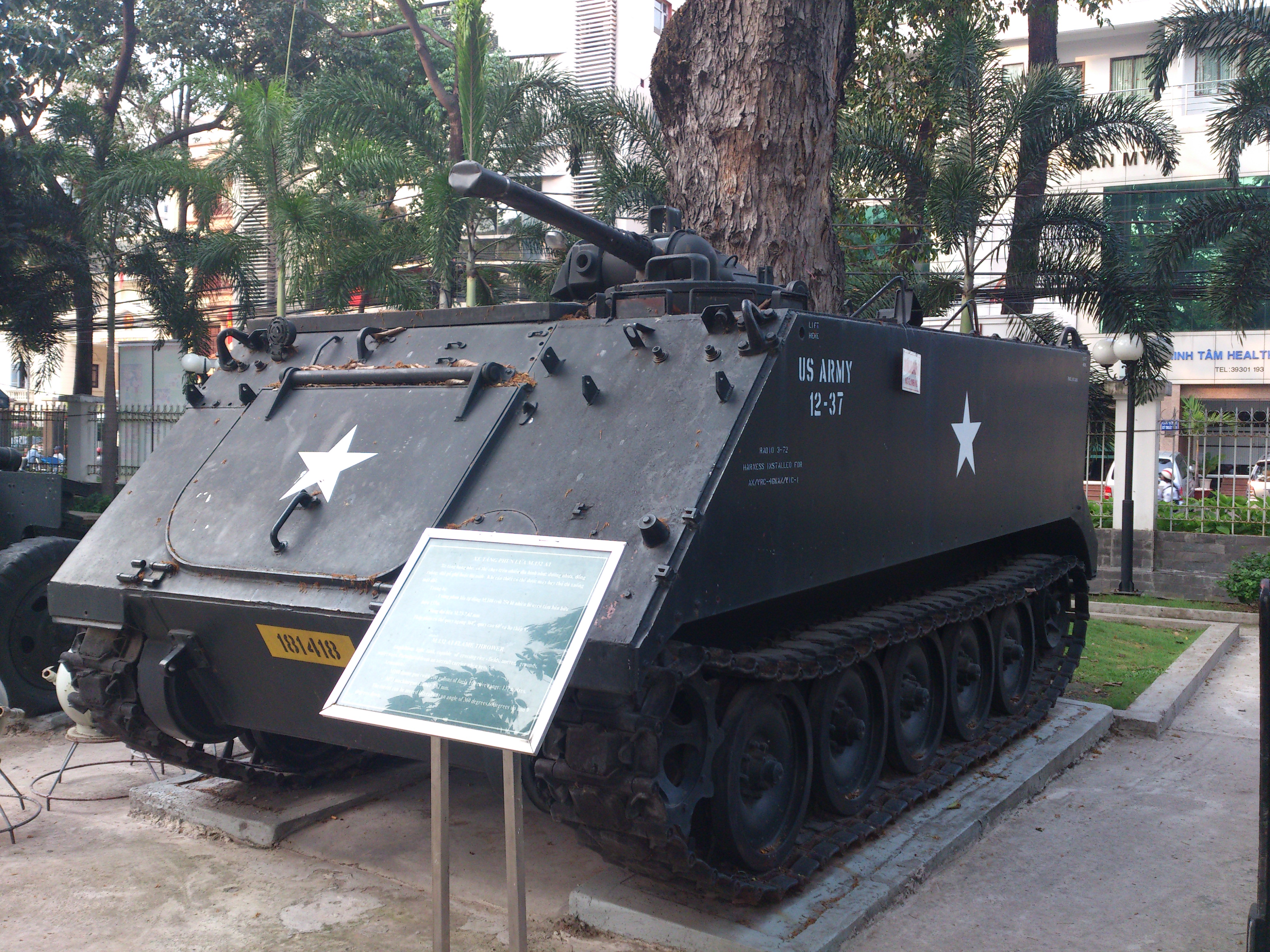 M132 Armored Flamethrower being on display at the War Remnants Museum.